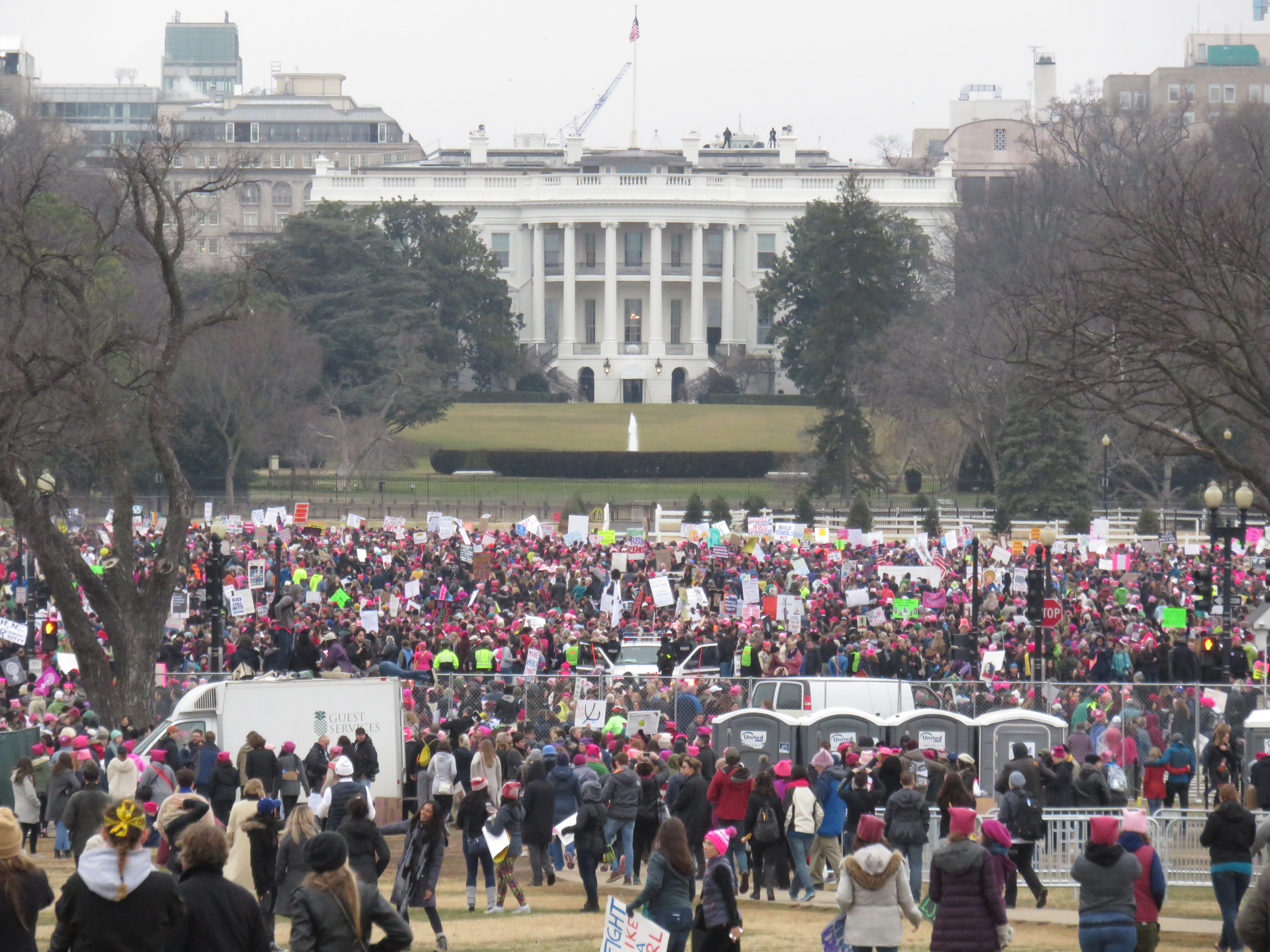 2017 Women's March on Washington near the White House